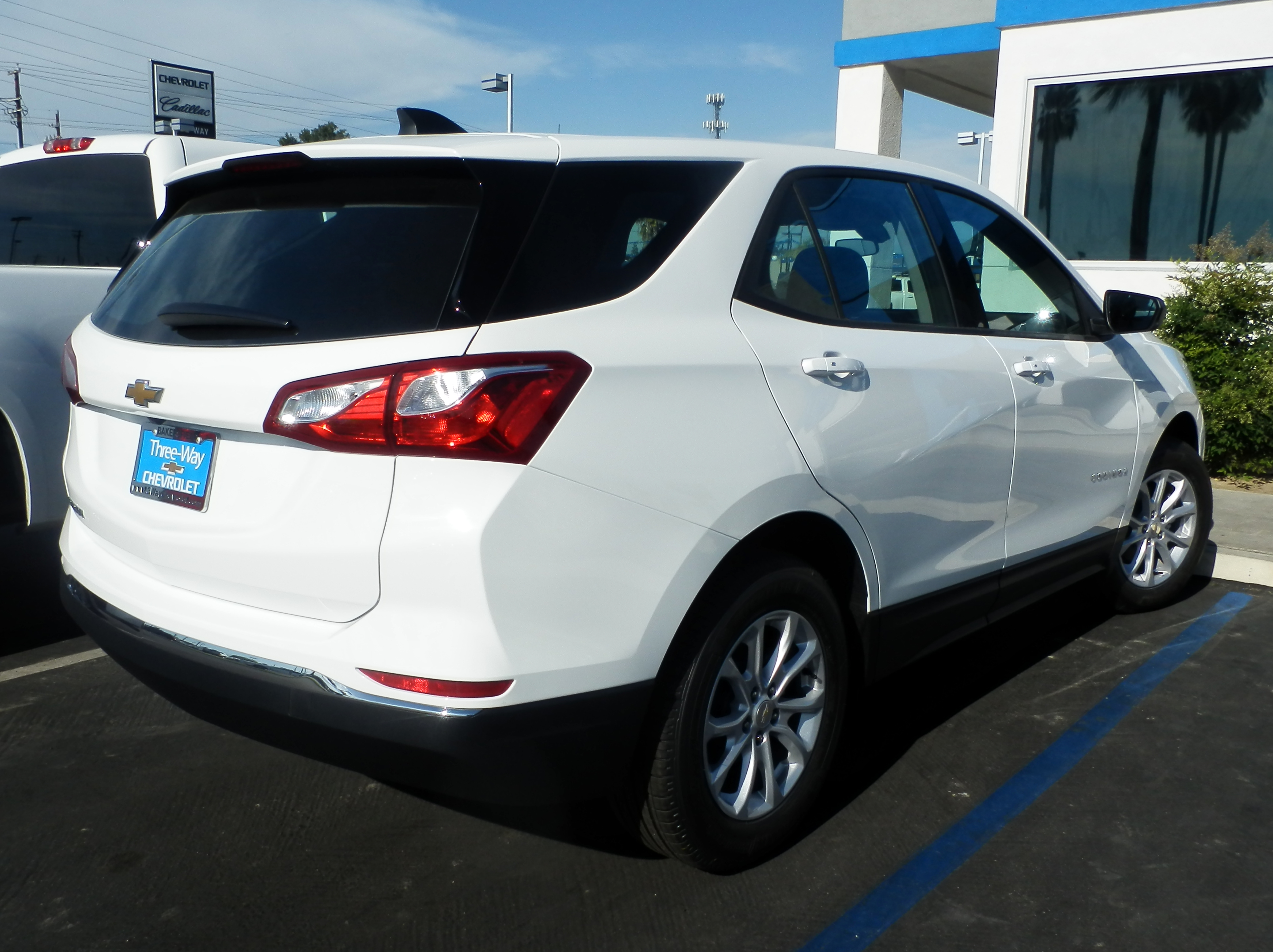 Chevrolet Equinox in Bakersfield